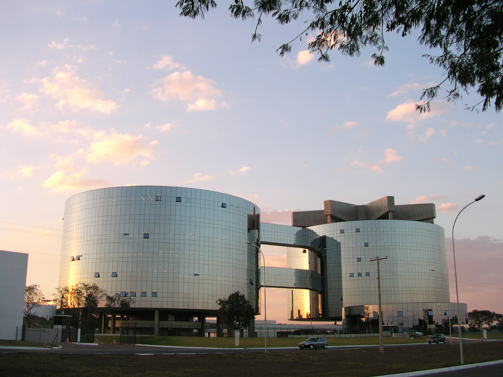 Procuradoria Geral da República, Brasília, Brazil.